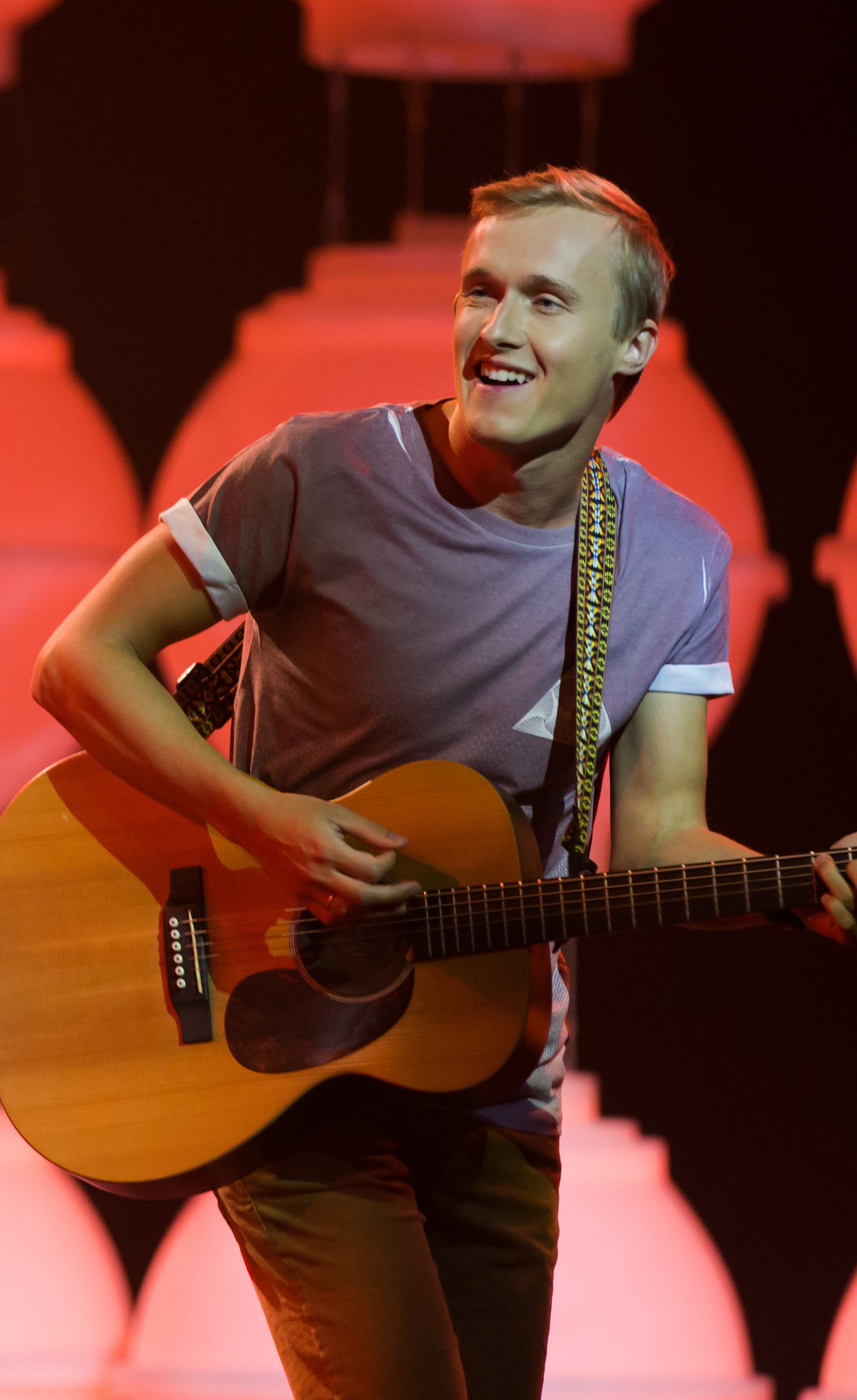 Allan Kasuk performing a song (Indrek Ventmann - Hispaania tüdruk) on Eesti Laul 2016